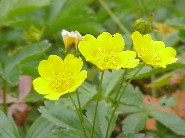 Species: Potentilla aurea Family: Rosaceae Image No. 5